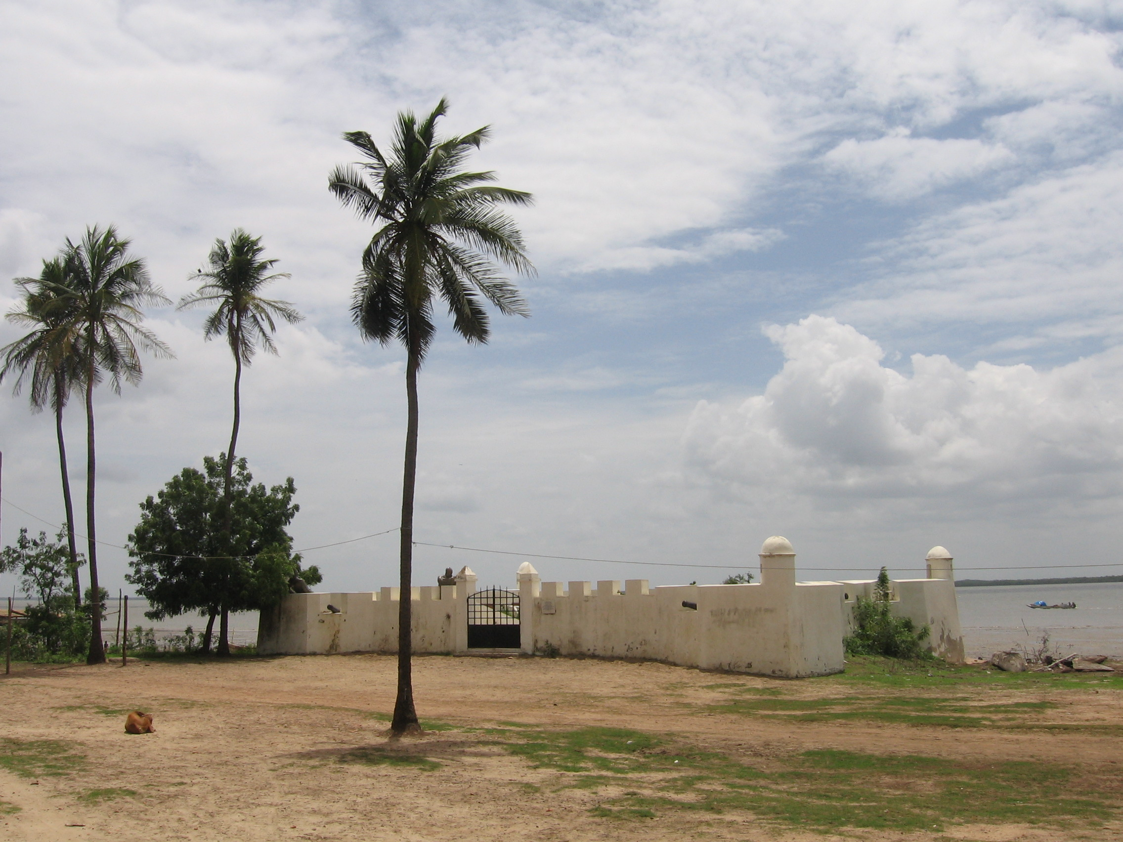 Fort of Cacheu.